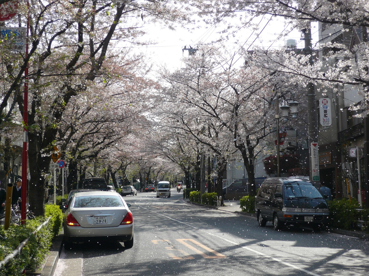 Kamuro-saka Slope, Tokyo, Japan